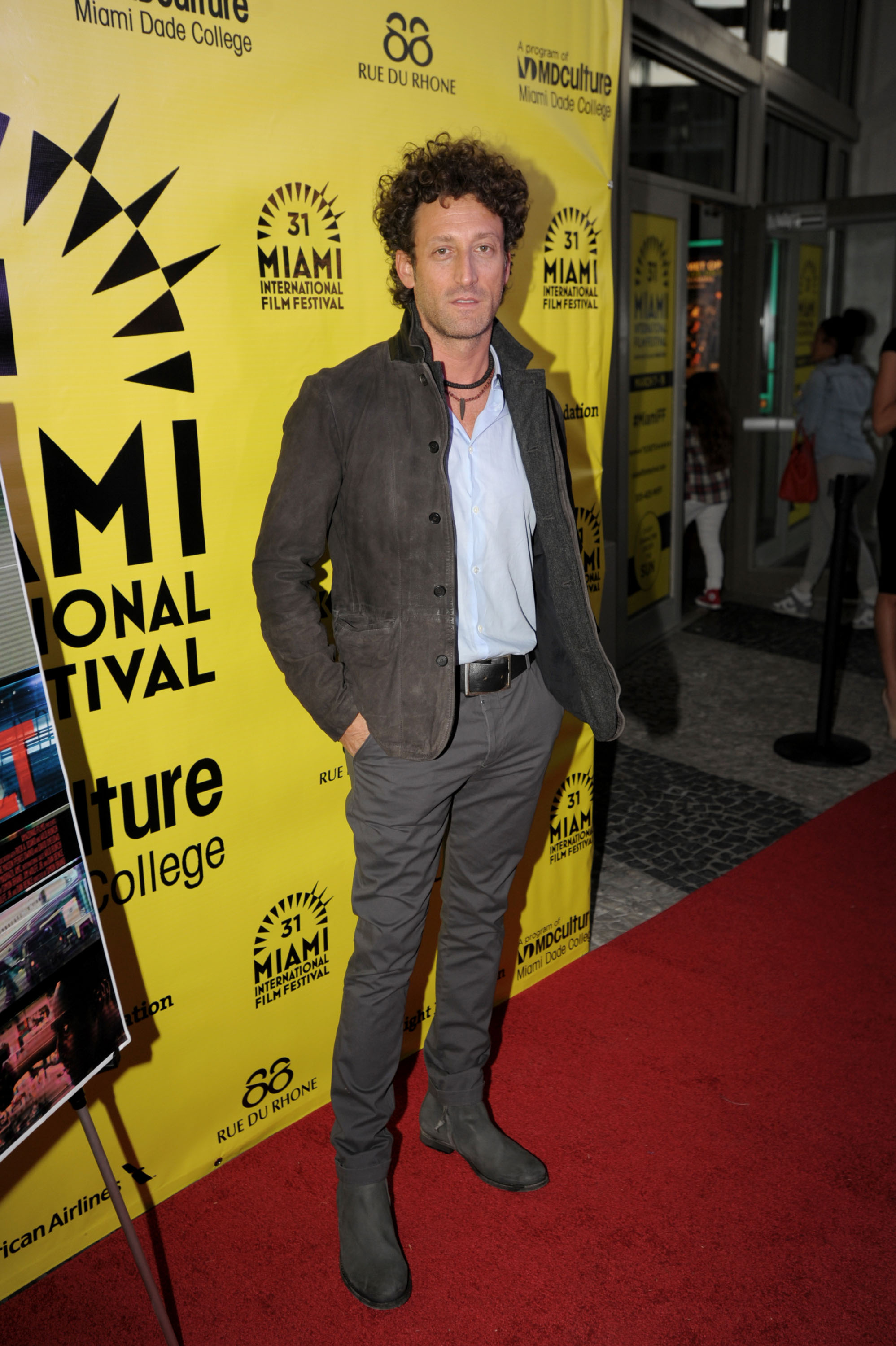 DEFAULT director Simón Brand at the 2014 Miami International Film Festival Photo by: World Red Eye